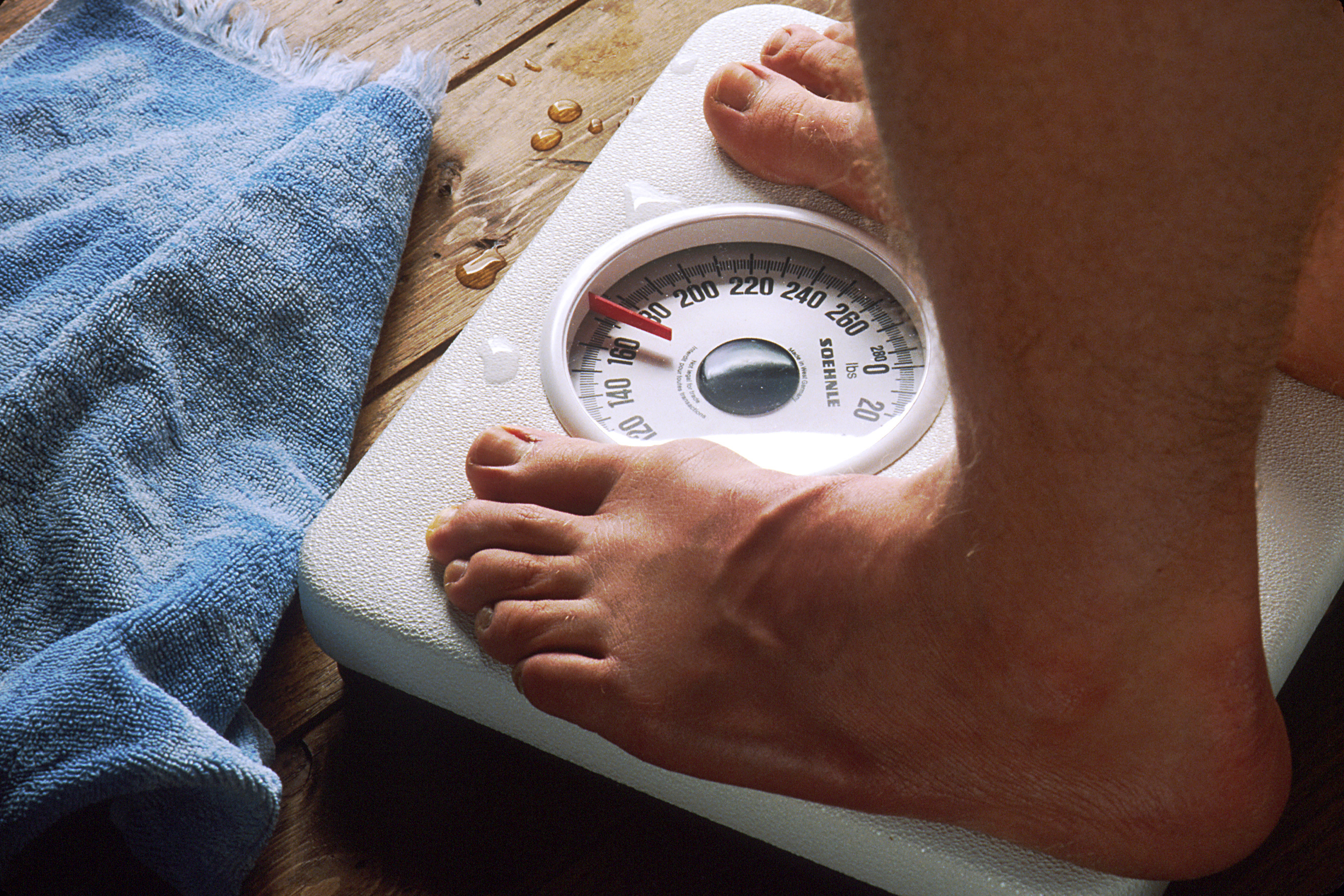 Weight and height are used in computing body mass index, an indicator of risk for developing obesity-associated diseases.